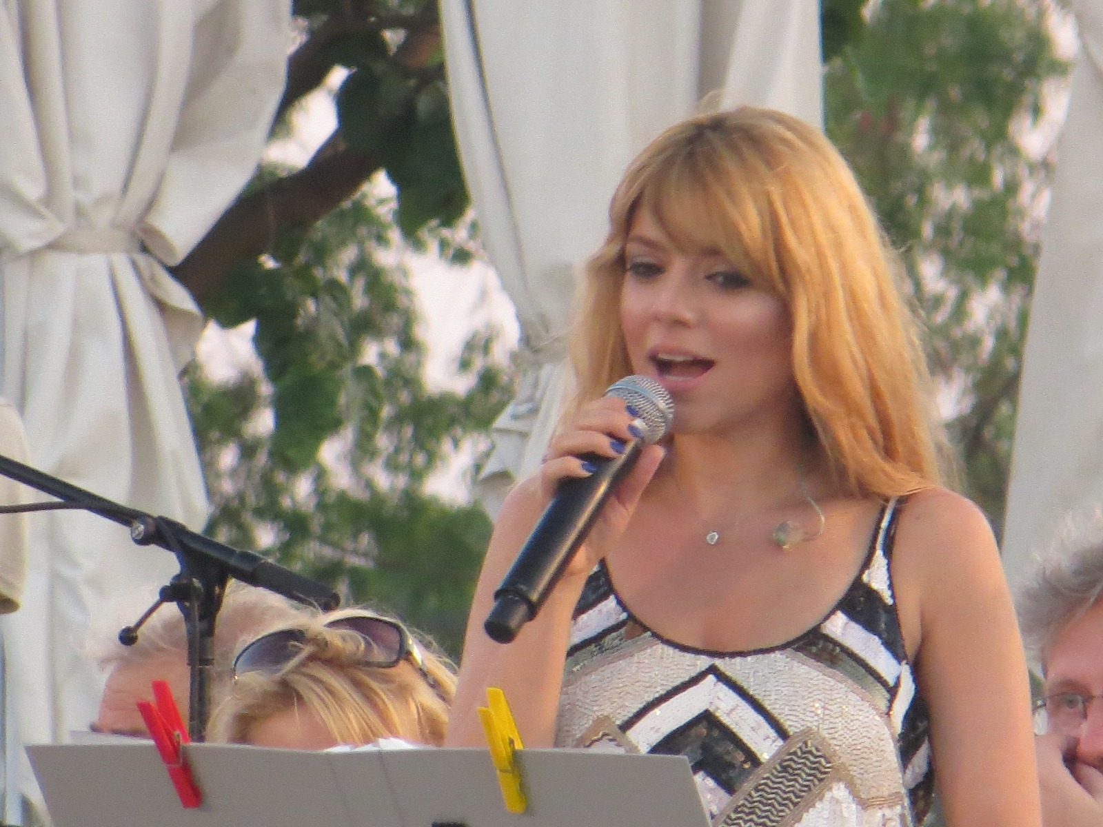 Shiri Mymmon, Entertainment